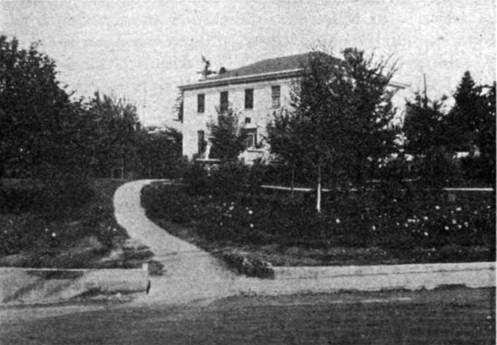 John McLoughlin House